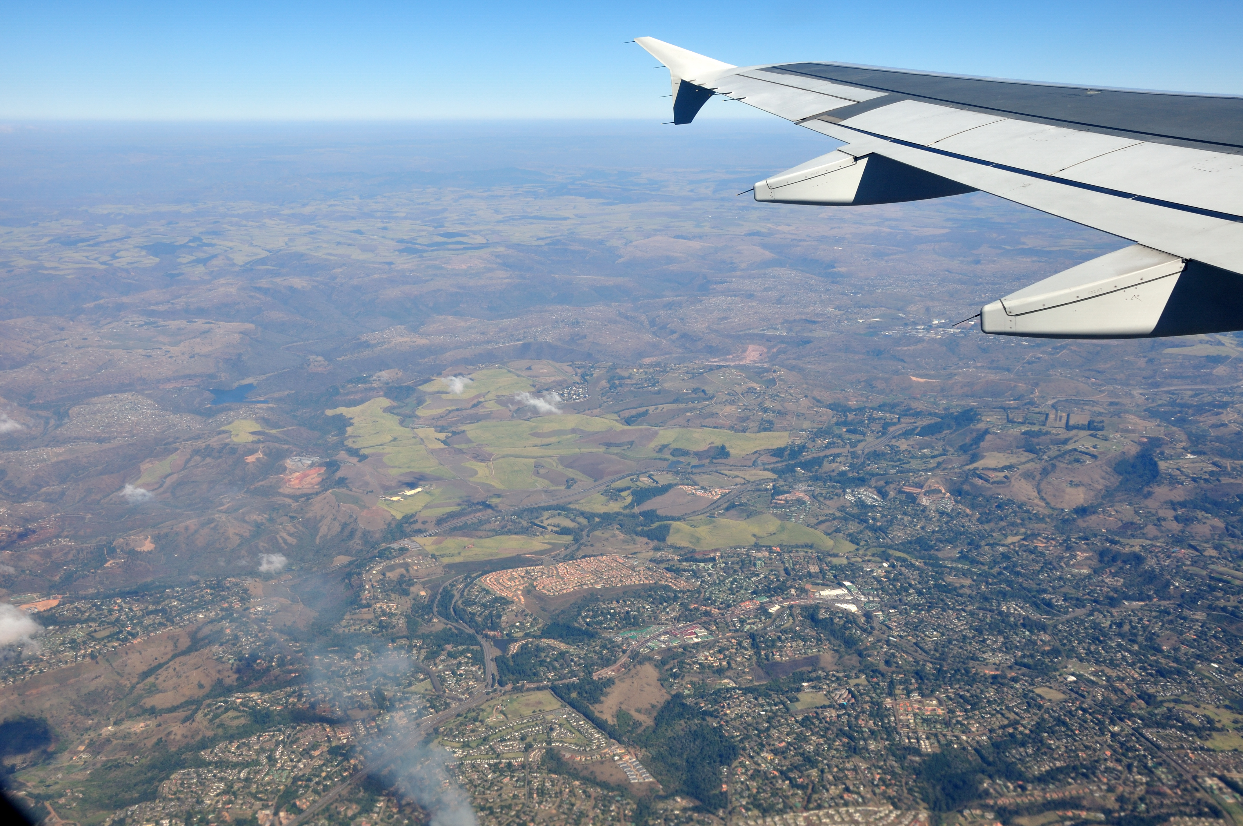 South Africa, Aerial view overhead Kloof